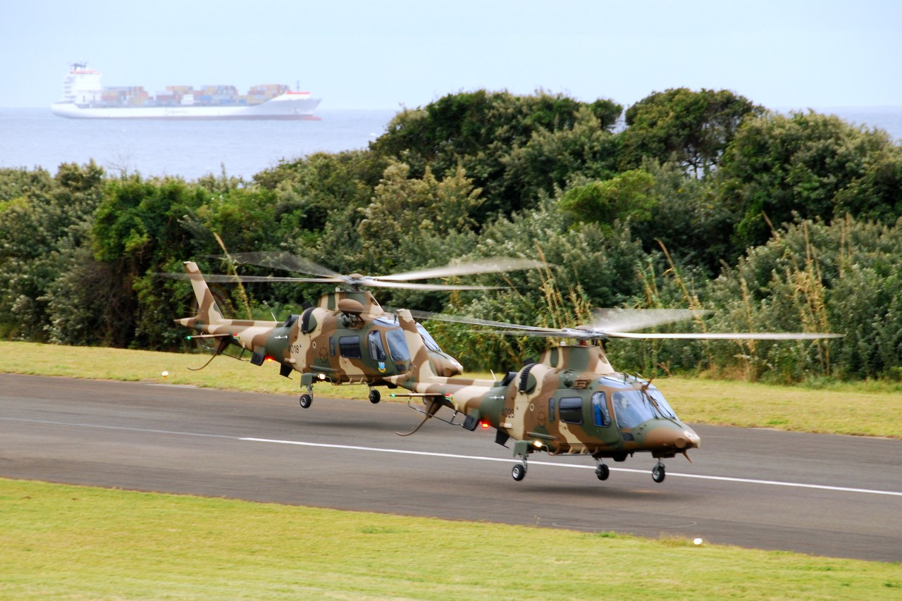 Agusta A109-LUH Durban - Virginia FAVG, South Africa Airshow (12-07-2008)